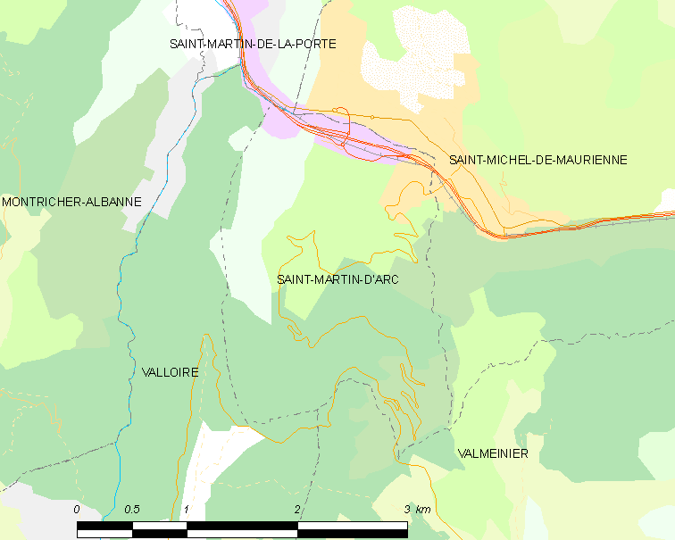 Map of French municipality